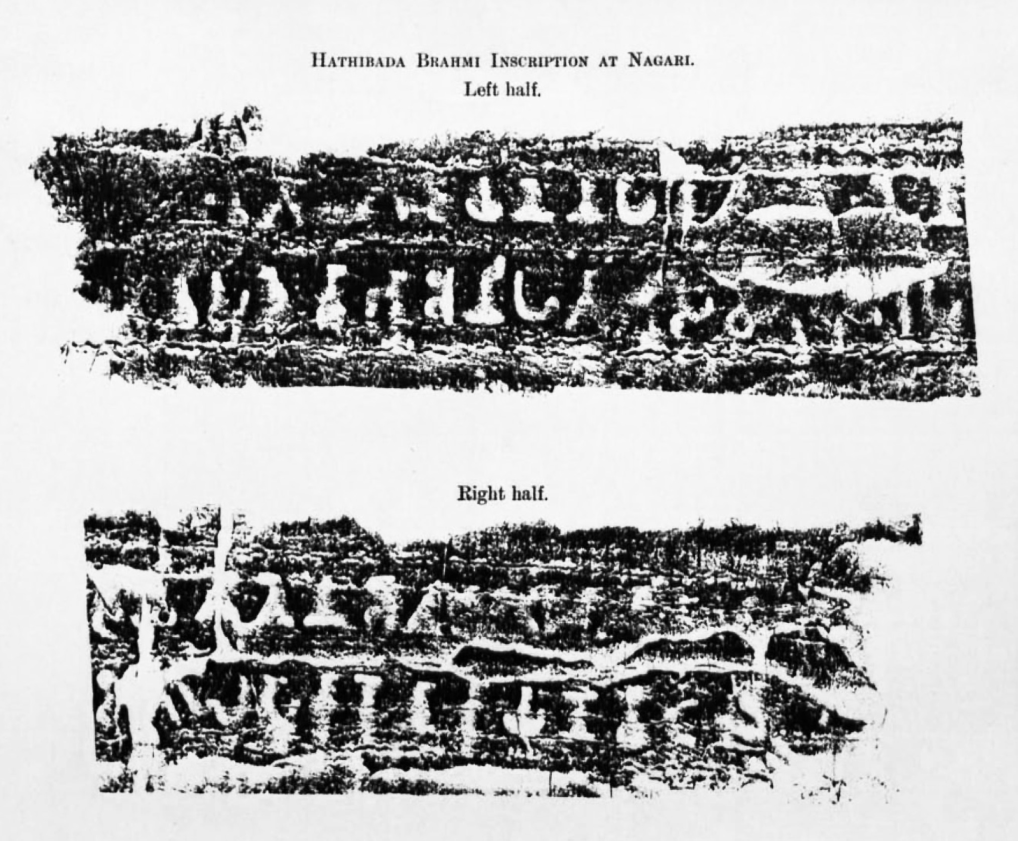 This is one of oldest Sanskrit inscription related to Hinduism. It is a much-studied Brahmi script inscription, generally accepted to be from the 1st century BCE or earlier. Buhler stated that the alphabet is one that prevailed in 4th or 3rd century BCE. Bhandarkar, after a long analysis, stated that this must be from early 1st century BCE. The inscription mentions the worship of Vasudeva (Krishna) and Samkarshana, as well as a temple (puja-shila-prakara). The complete inscription, what is surviving of it, states that this temple was built by Gajayana Sarvatata, son of a lady named Parasaragotra. The mentioned Hindu gods appear in ancient Hindu texts, the Mahabharata, the Jain texts and the Buddhist Jataka tales. This inscription is one of the many pieces of evidence for the existence of Vaishnavism, or one of its ancient roots, in 1st millennium BCE. This is a photographs of 2000+ year old inscription (2D Art). Made from a personal copy of the following book. Note that PD-Art guidelines apply, since the original creator of this artwork lived many centuries ago. Any rights I have are herewith donated with Wikimedia Creative Commons 4.0 license. NP Chakravarti (1934), Epigraphia Indica Volume 22.